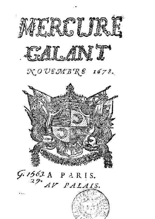 Issue of Mercure Galant (1678) November 1678